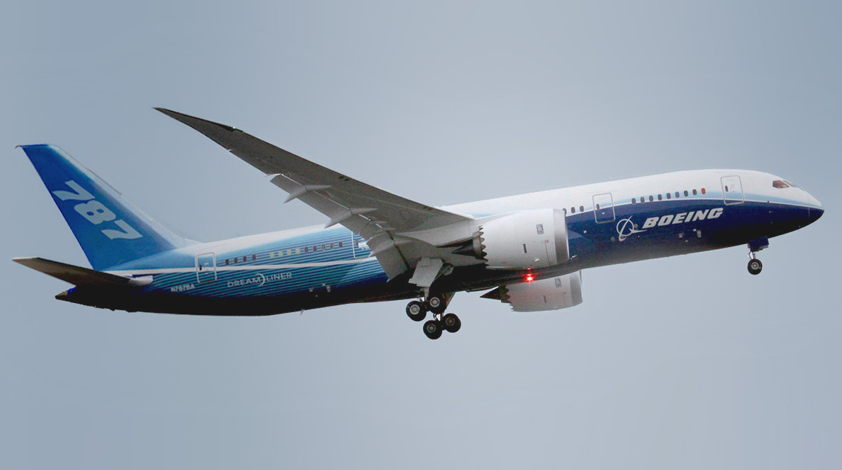 My photos that I took at today's First Flight of the Boeing 787 Dreamliner.